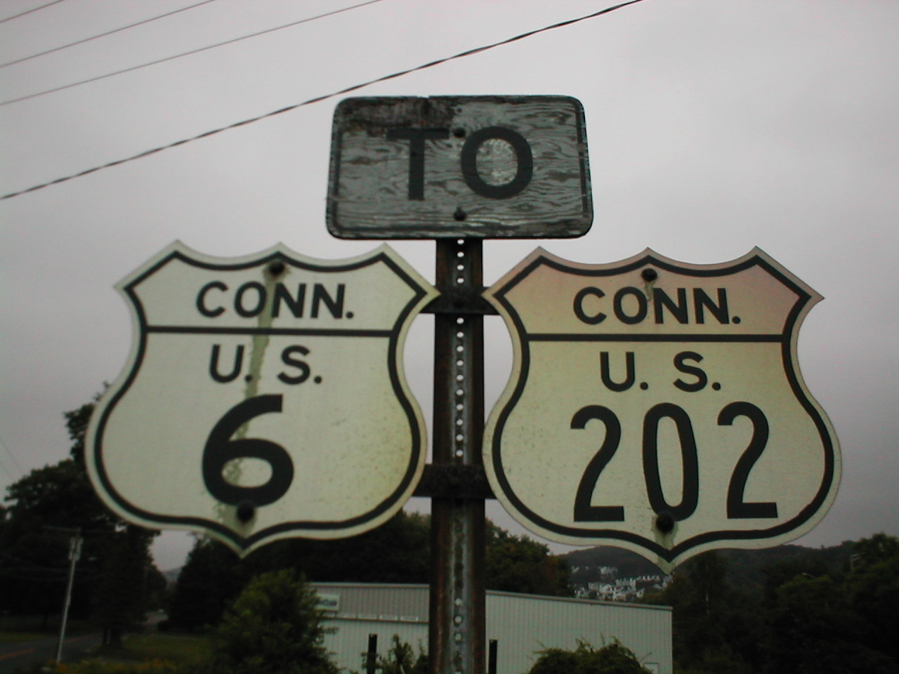 Old-style shields for U.S. Highway 6 and U.S. Highway 202 in Connecticut. Taken August 29, 2003 by User:SPUI.